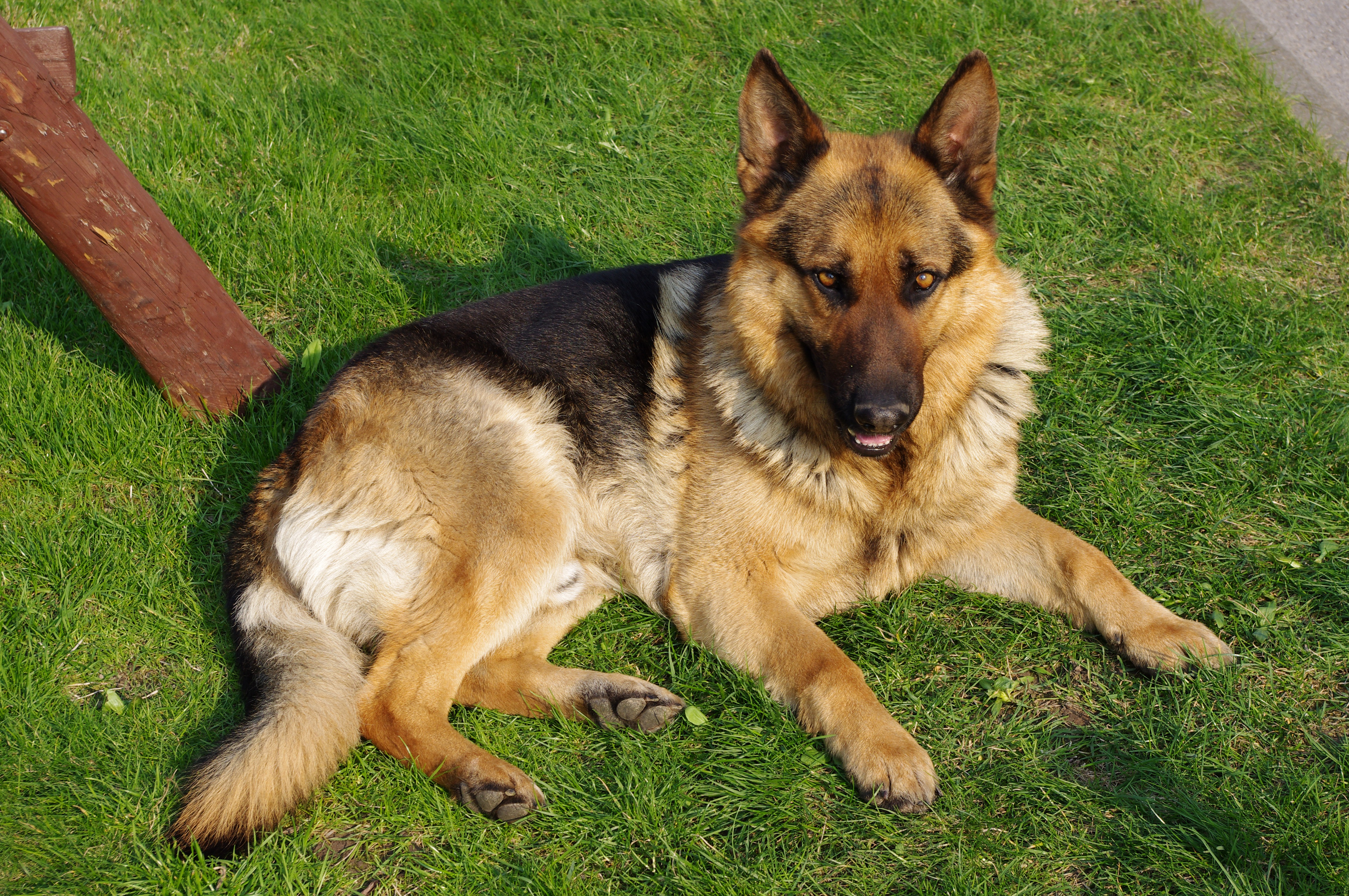 A German Shepherd dog